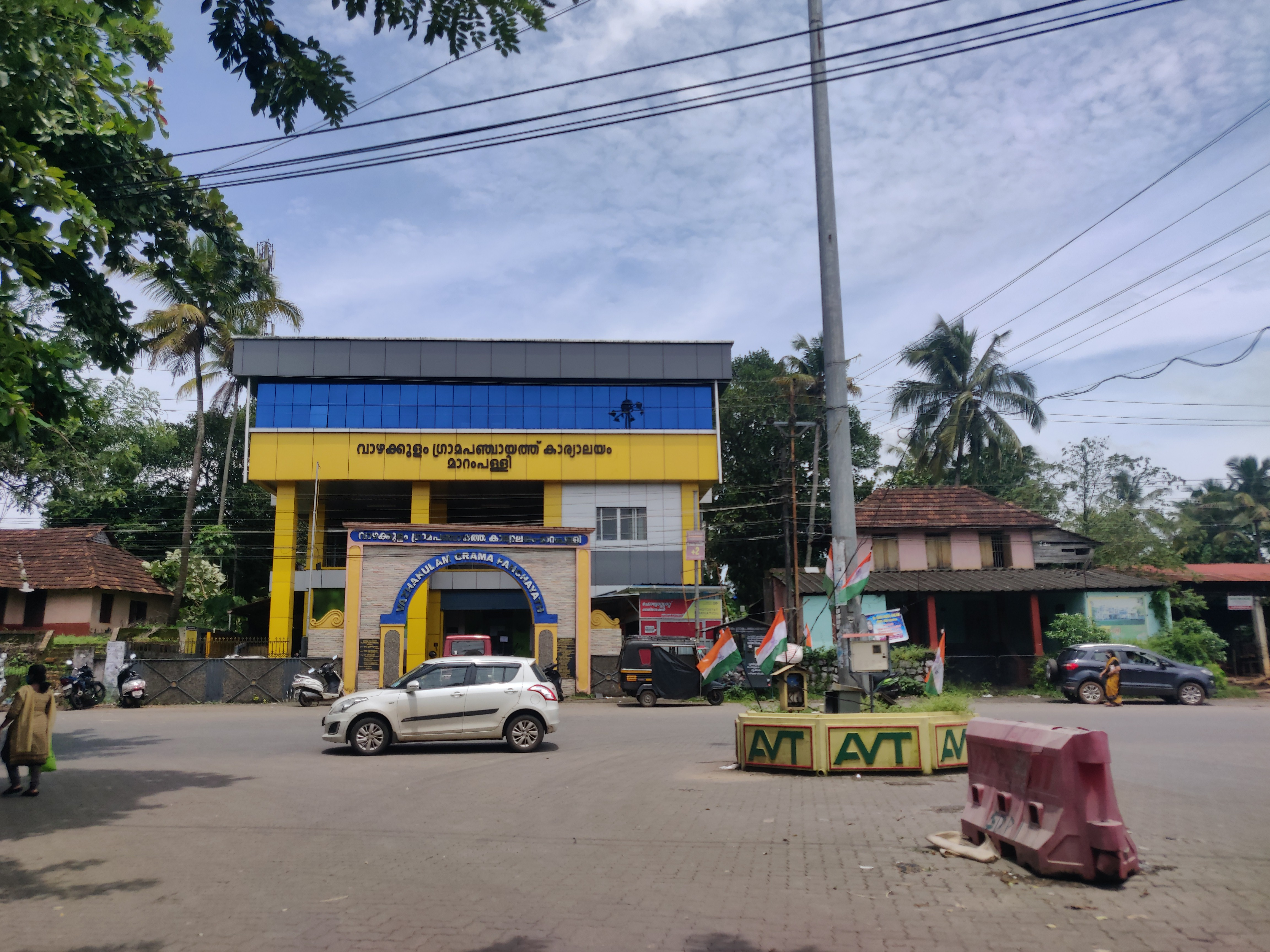 Vazhakkulam Gramapanchayat Office, Near Marampilli Junction, Kerala, India